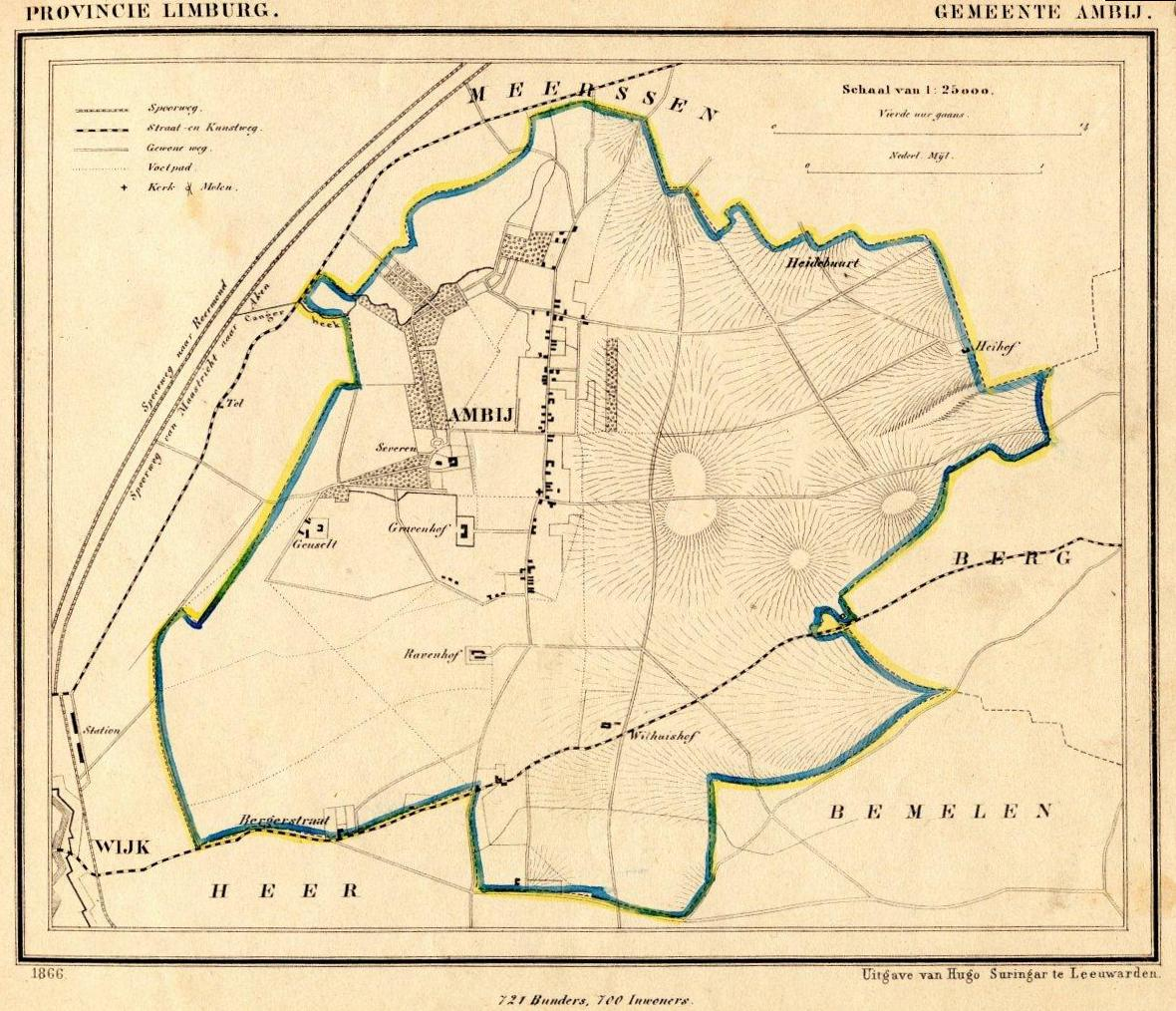 The municipality of Ambij (Province of Limburg, Netherlands) on a map from 1866. The municipality ceased to exist in 1970 when it was swallowed by Maastricht, where it is now a neighbourhood called Amby.